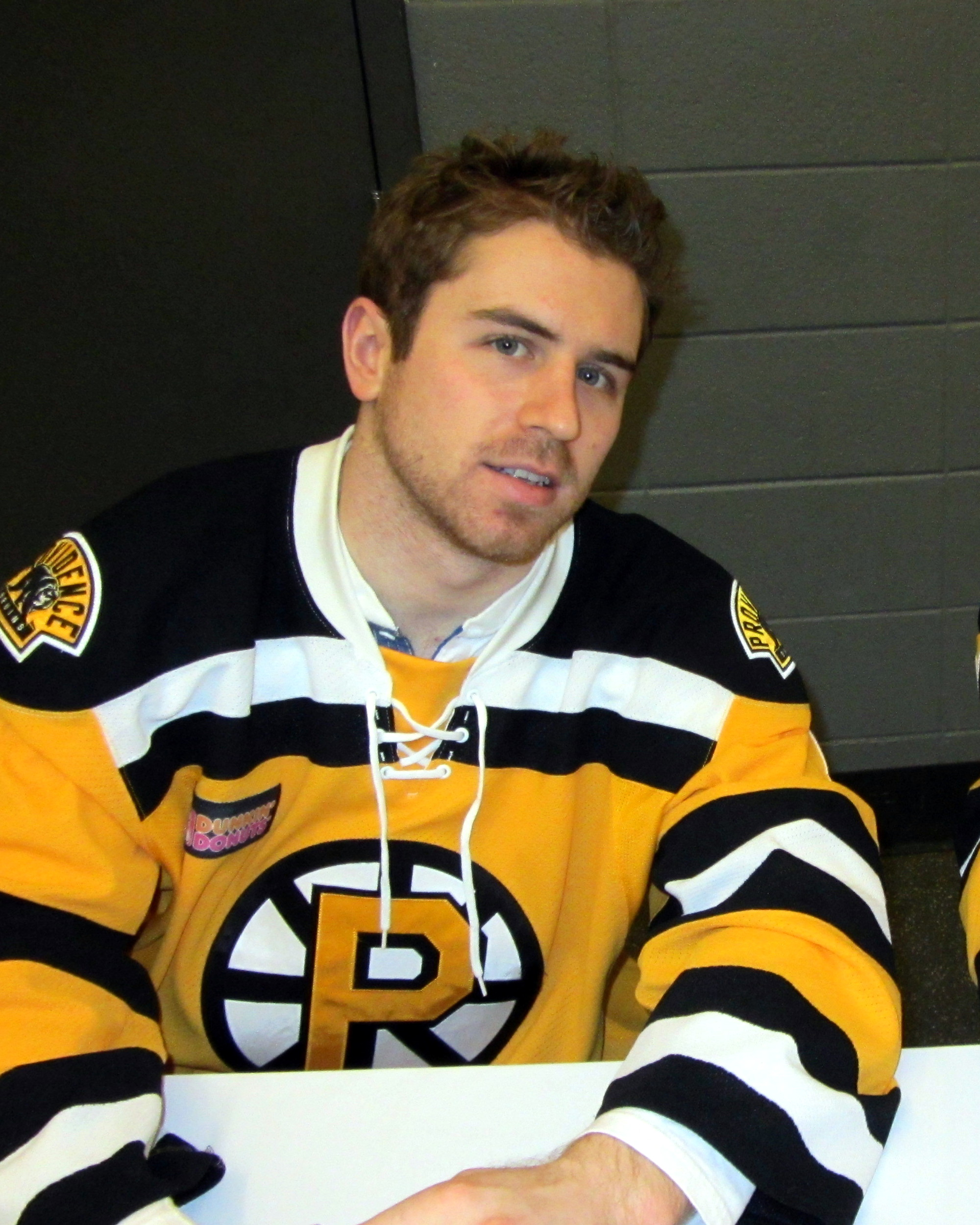 David Warsofsky and Colby Cohen of the Providence Bruins. February 2012.